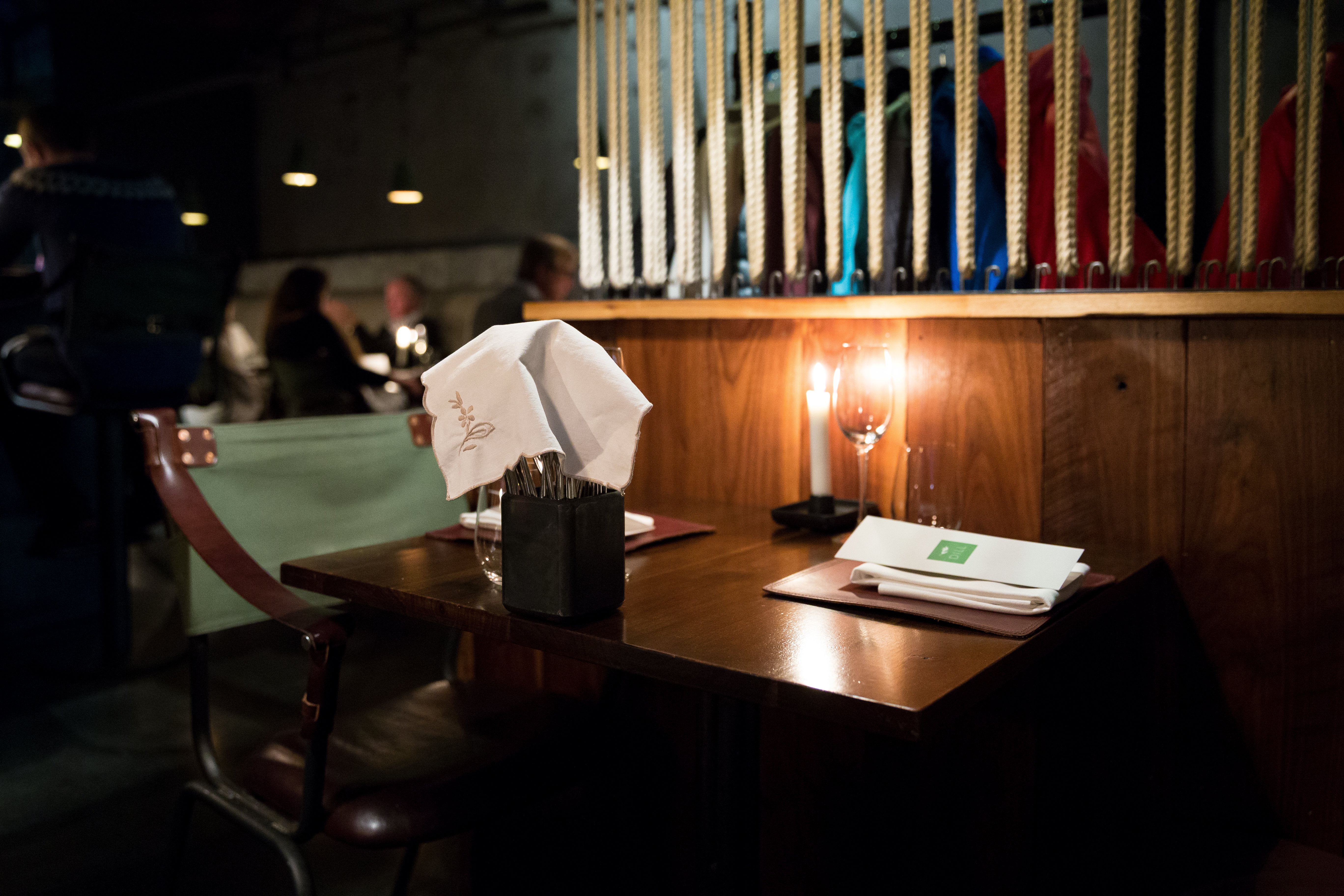 Iceland - Dill (Sep 2016) - IMG_2923